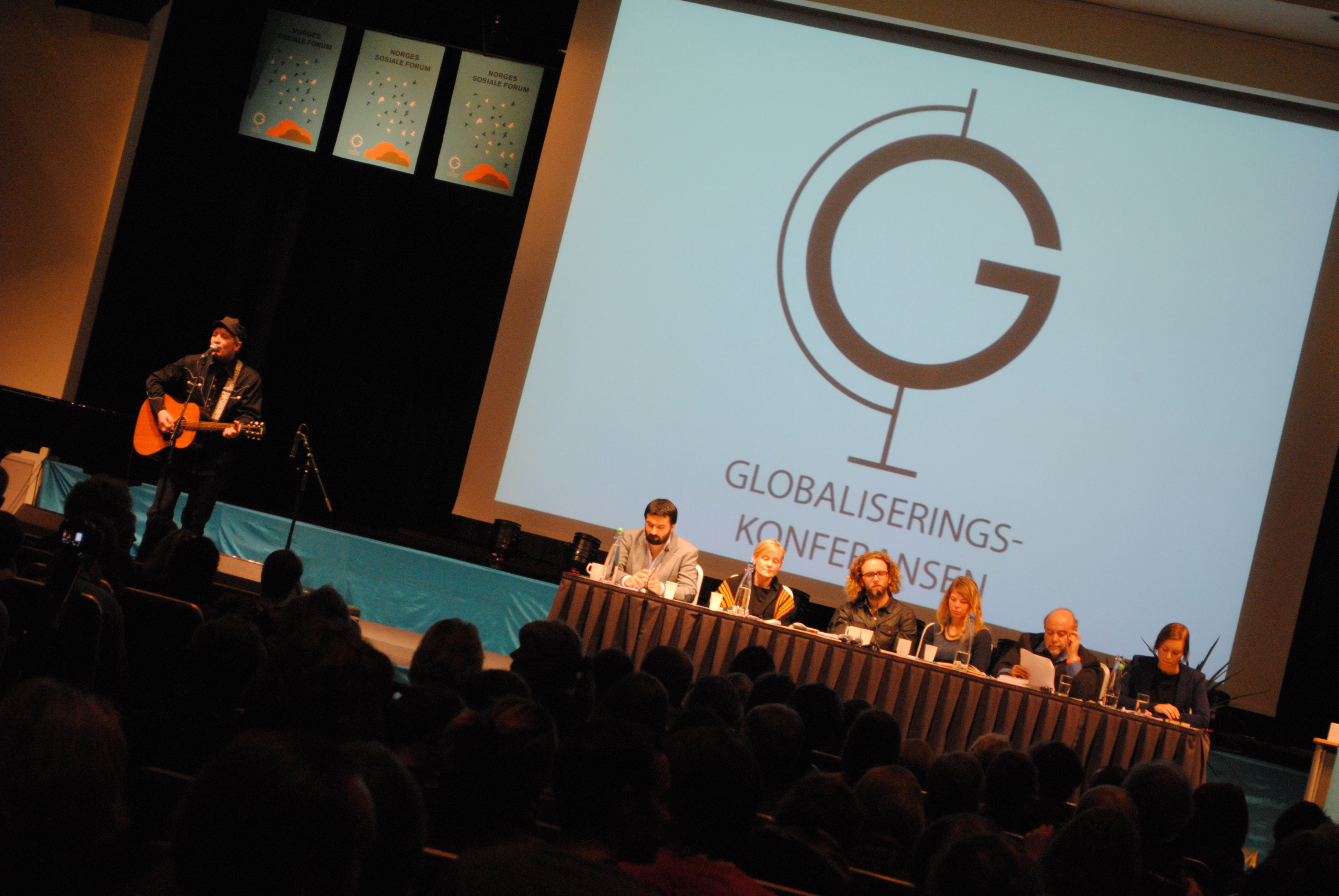 Opening of the Norwegian Social Forum (Globaliseringskonferansen) in Oslo 2012.